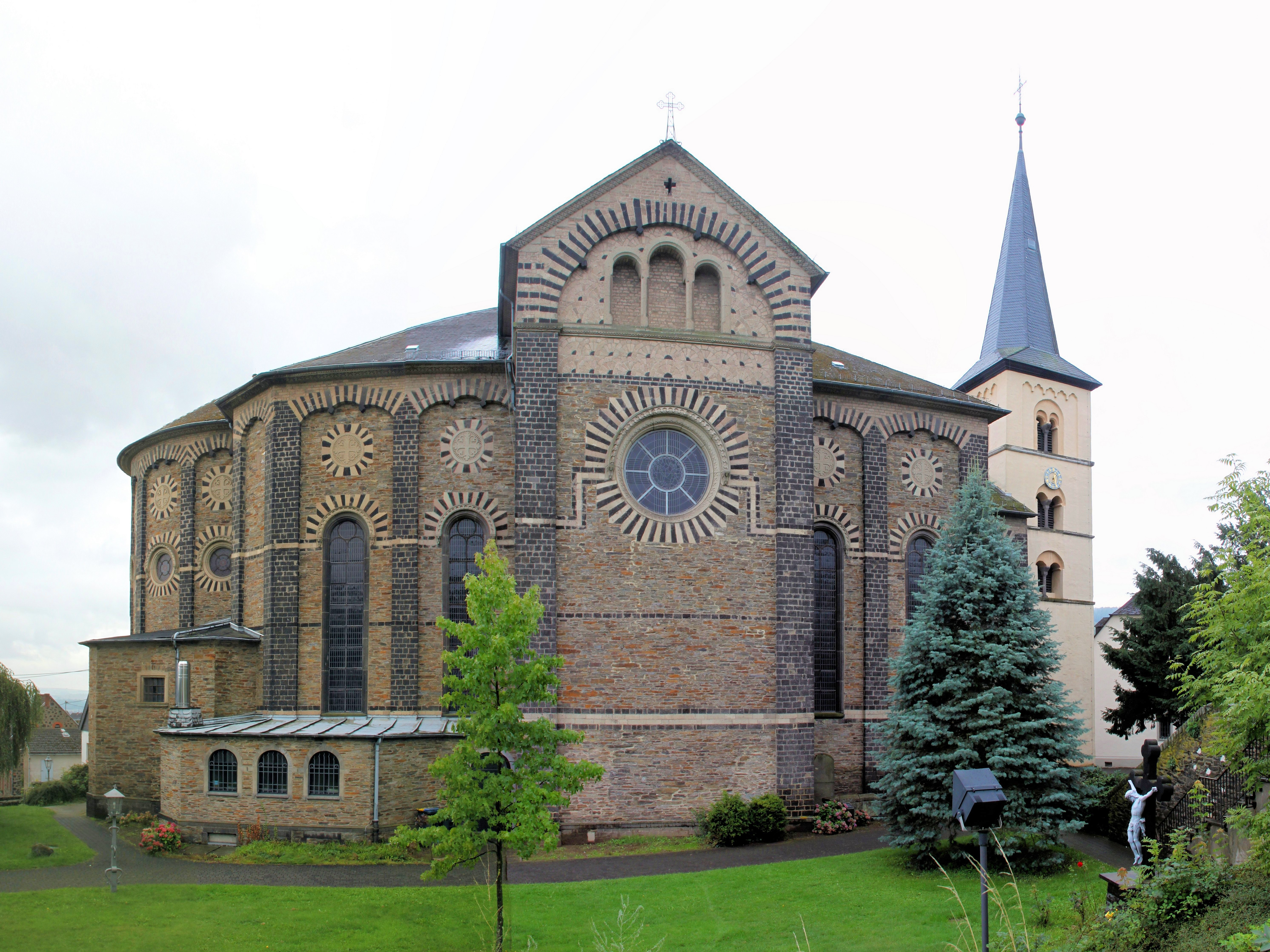 Nickenich: St. Arnulf parish church.